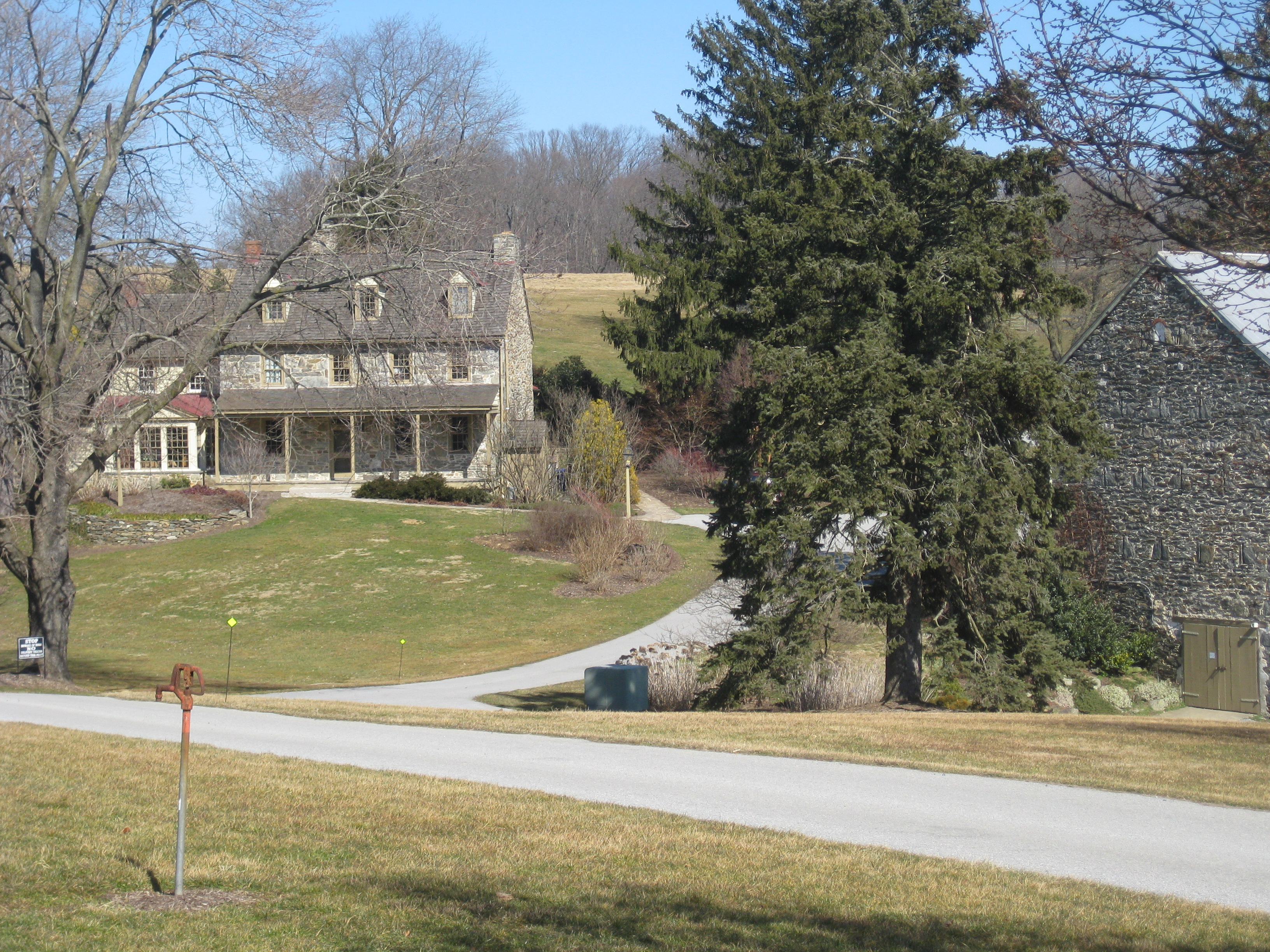 National Register of Historic Places Bailey, John, Farm (added 1985 - - #85001143) Springdell Rd., East Fallowfield Township , Coatesville Historic Significance: Architecture/Engineering, Event Architect, builder, or engineer: Unknown Architectural Style: Other, Federal Area of Significance: Architecture, Agriculture Period of Significance: 1800-1824, 1750-1799